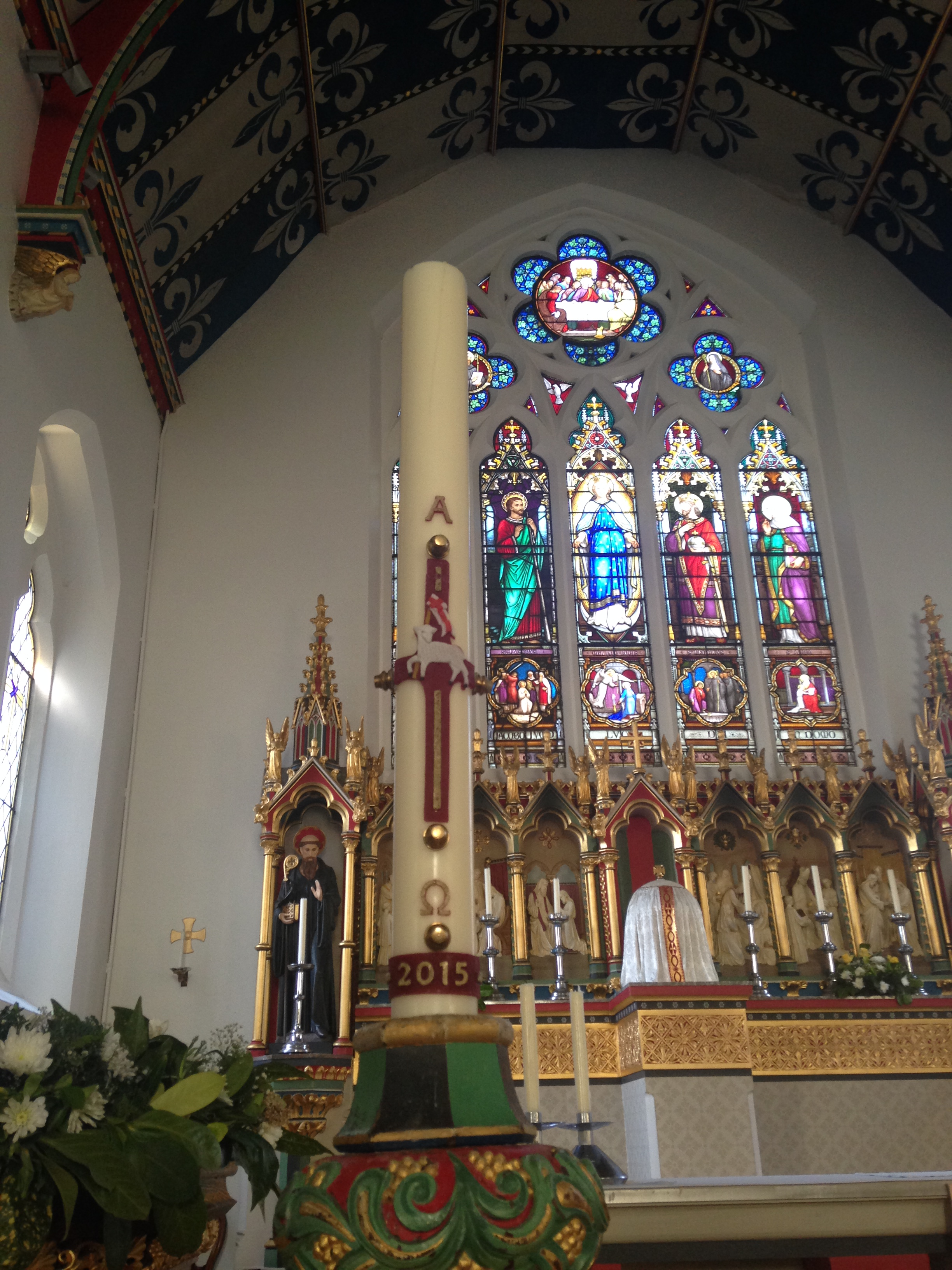 Sanctuary and Paschal Candle Easter 2015